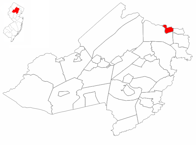 Position of Butler (highlighted in red) in Morris County. Morris County's position in New Jersey is in turn highlighted in red.